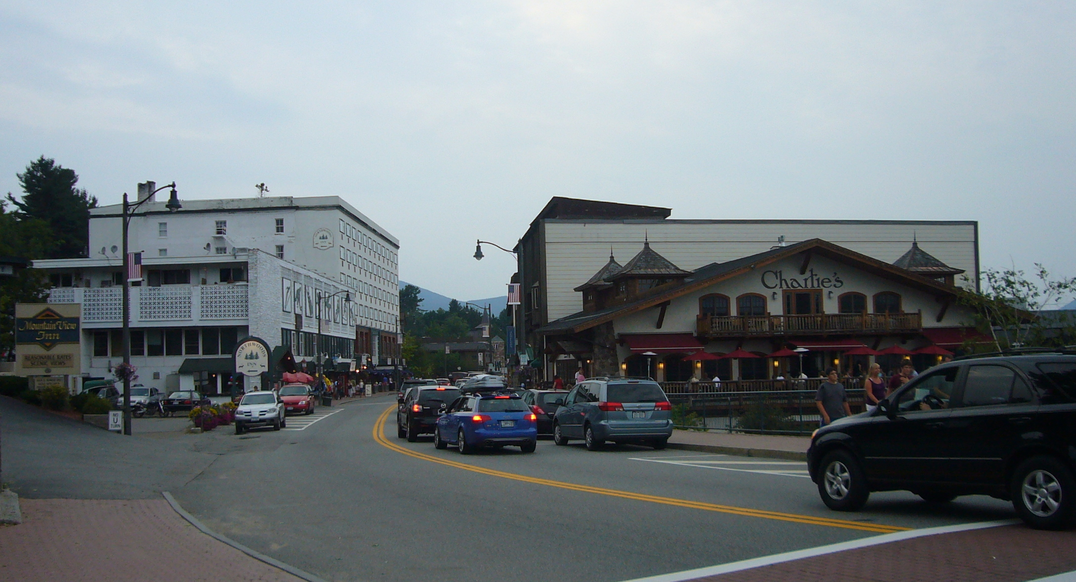 Main Street, Lake Placid, New York, USA